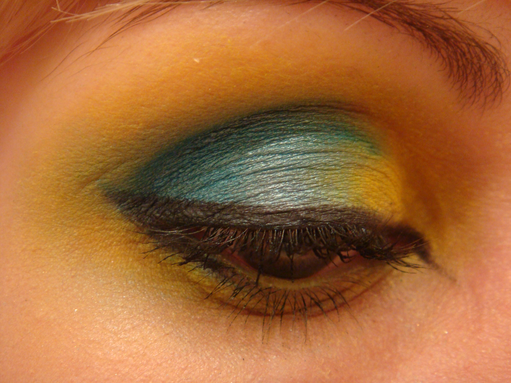 Makeup used: Eyelid base: Make Up For Ever Crayon Khôl 2K White Eyeshadow: Make Up For Ever N˚ 02 Yellow Blue: Urban Decay Alice (Painkiller), Jinx & Shattered. Eyeliner: Urban Decay 24/7 pencil in Zero Mascara: Christian Dior Iconic in Black